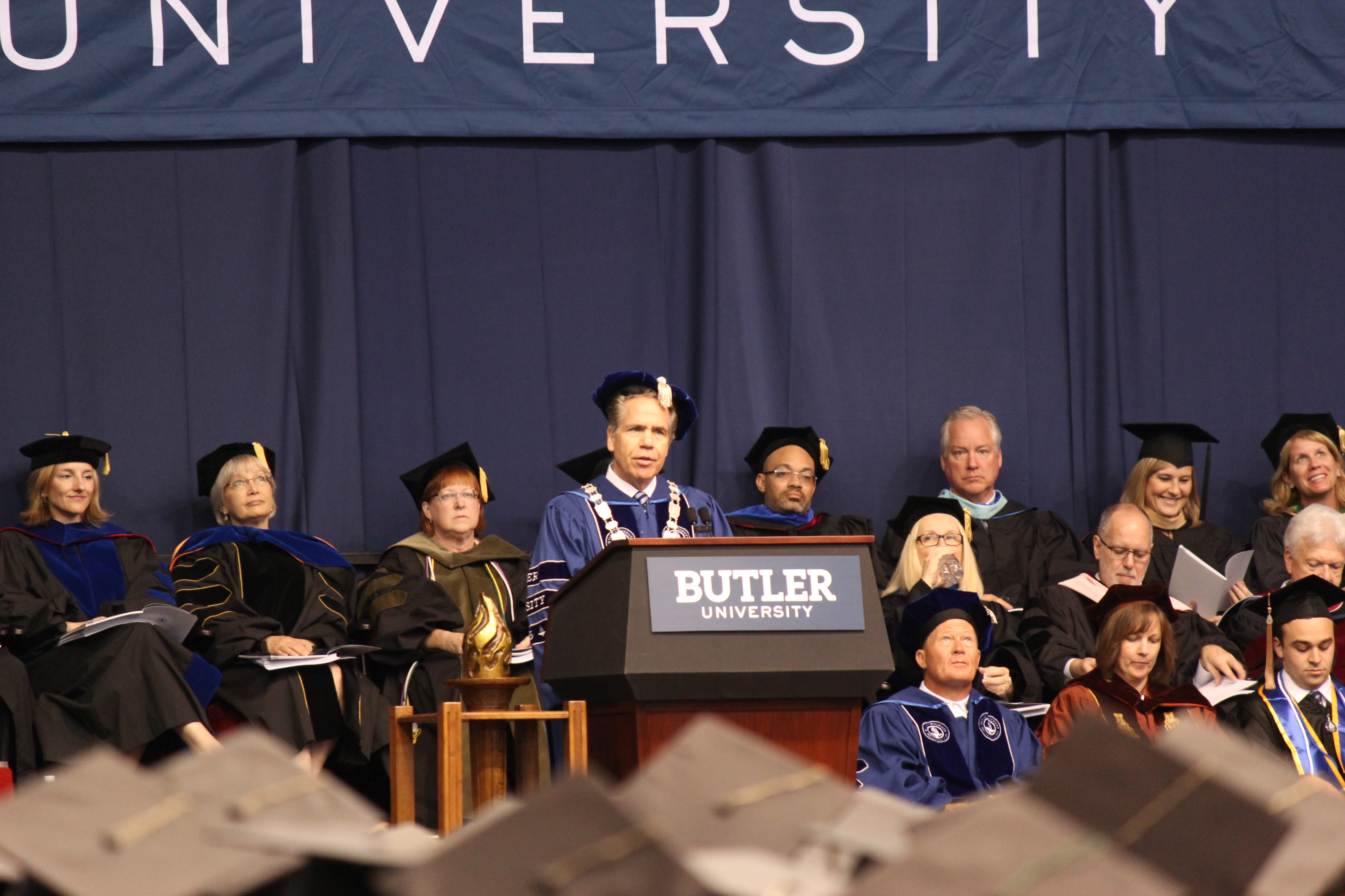 James Danko at Butler 2016 Graduation